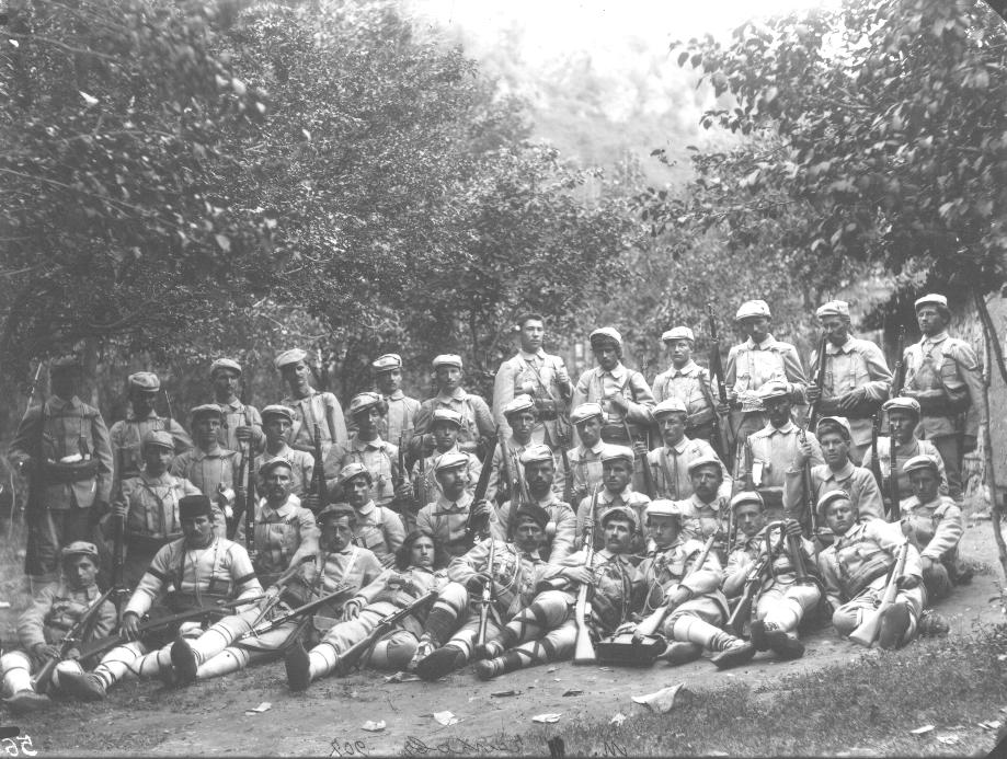 Cheta of Mihail Chakov